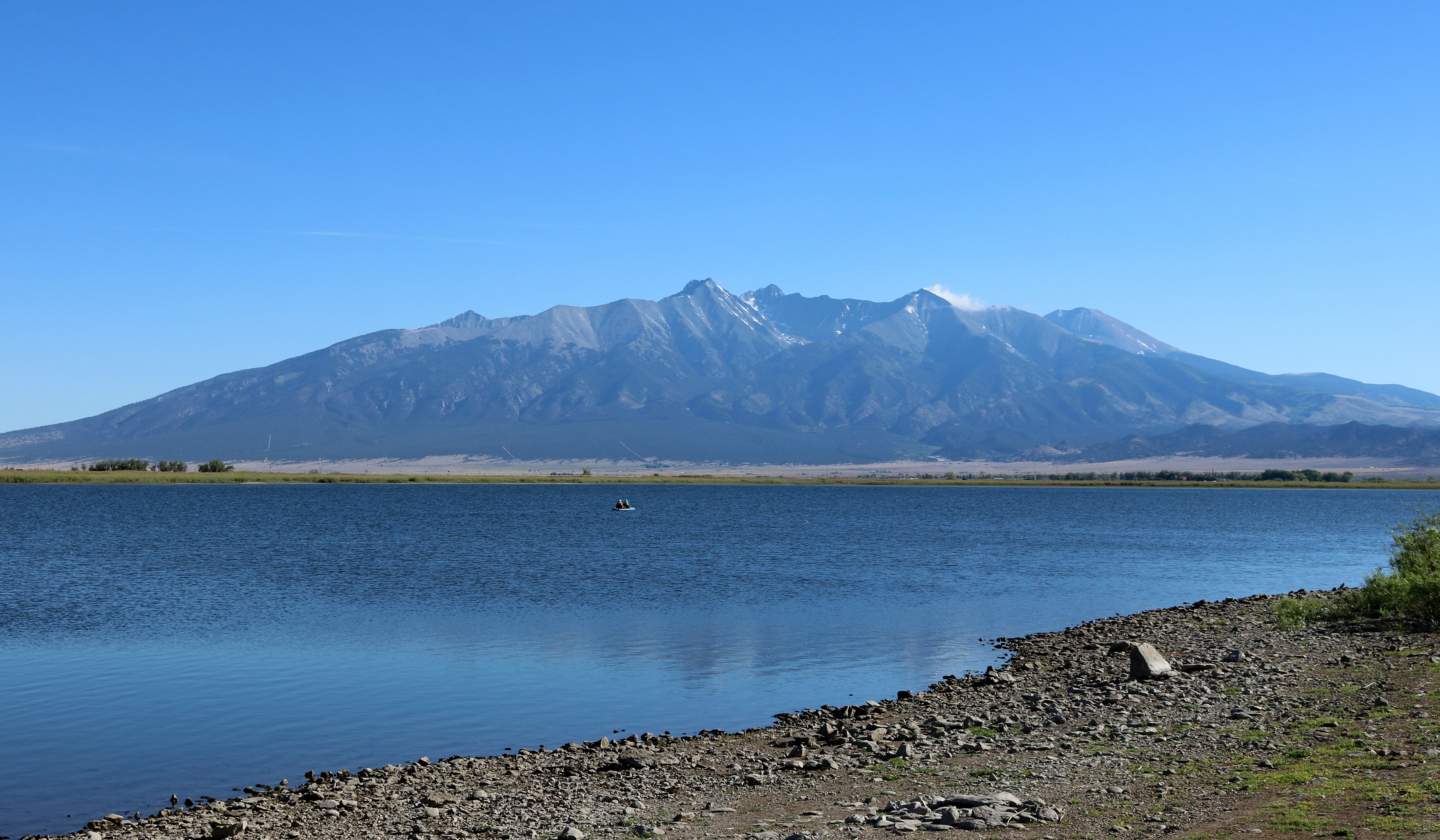 Smith Reservoir in Costilla County, Colorado. The area surrounding the reservoir is a state wildlife area. The mountain is Blanca Peak.